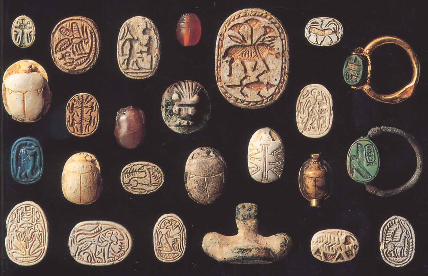 Miniature art from Old Orient from BIBEL+ORIENT Museum Freiburg (Switzerland)